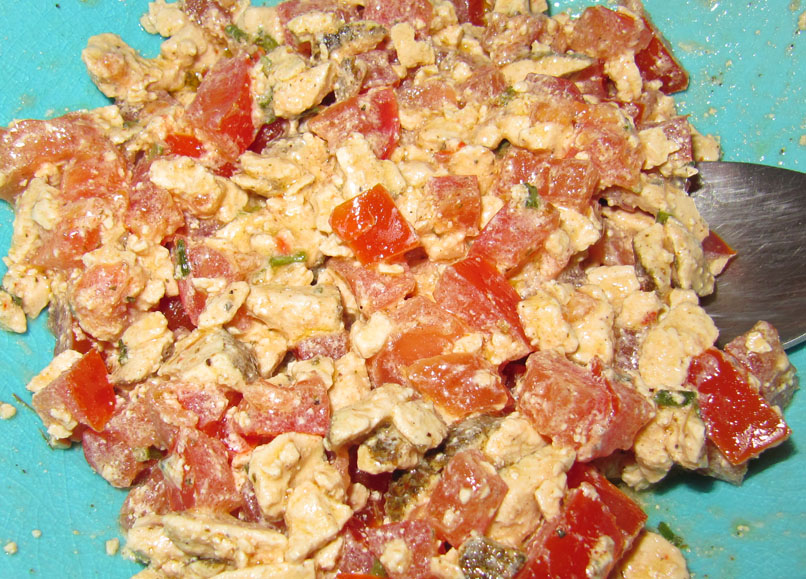 Spicy Shanklich cheese(lebanese cheese with Za'atar topping) prepared with tomatoes, chives & olive oil, a traditional mezze dish